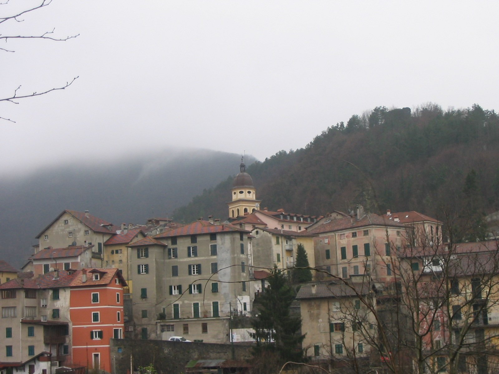 Panoramic of Voltaggio, Province of Alessandria, Piedmont, Italy